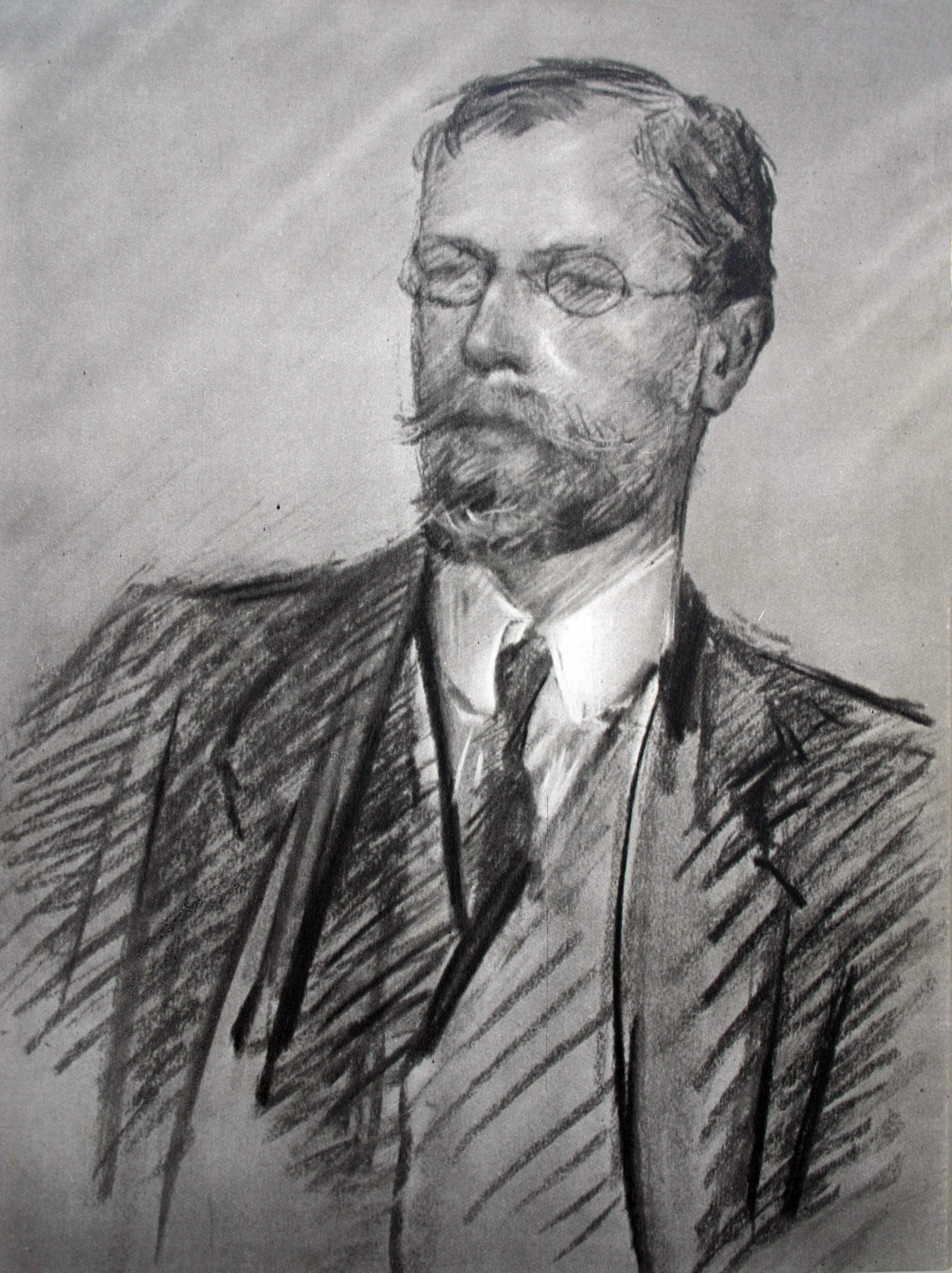 Charcoal/pastel portrait of Axel Munthe (1857-1949)